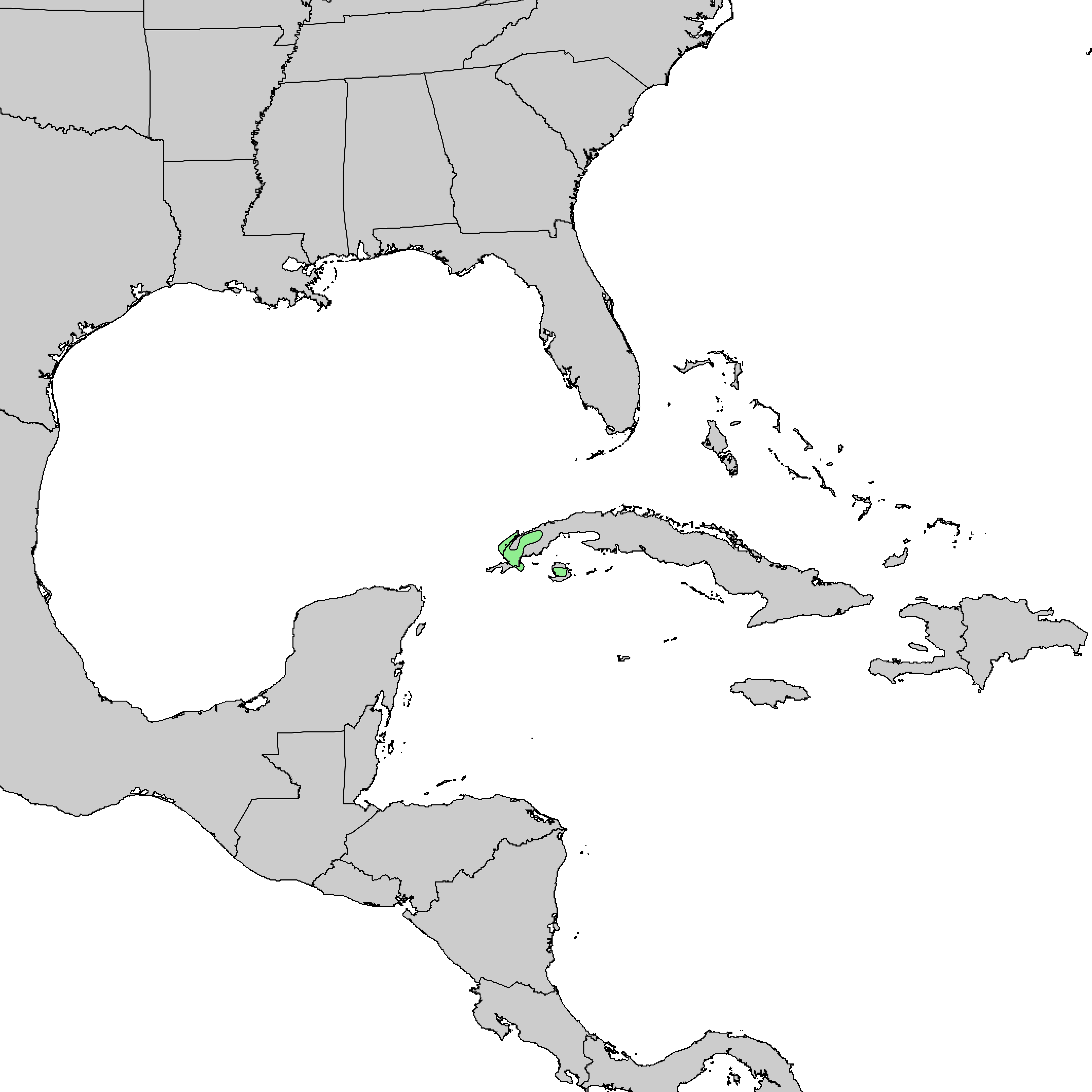 Natural distribution map for Pinus tropicalis